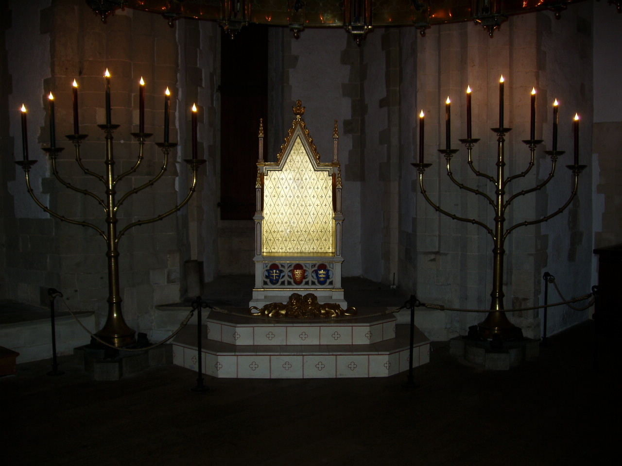 Throne Room (recontructed) in Wakefield Tower, Tower of London, London, UK